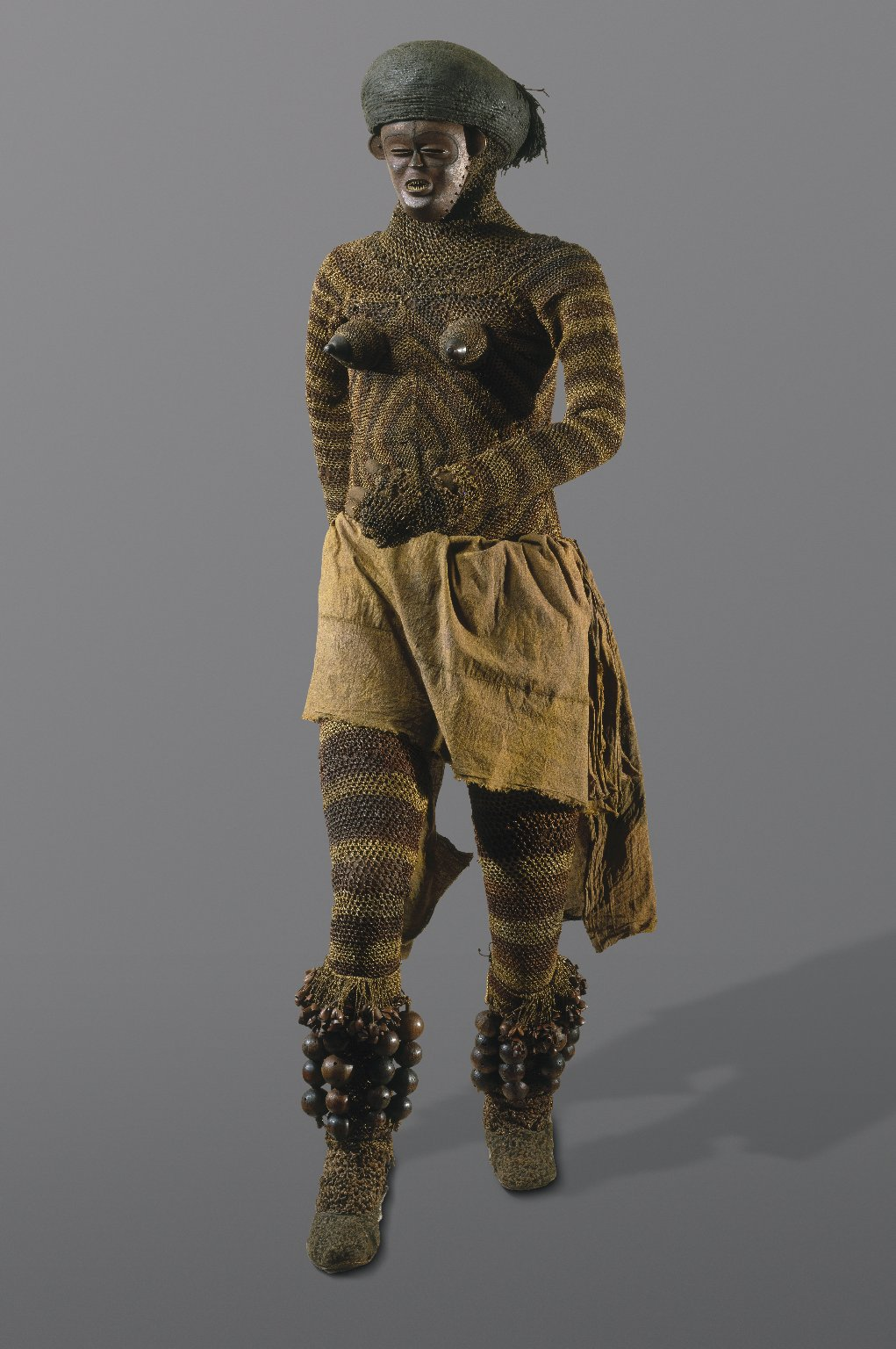 Pair of rattles consisting of many small brown seed pods attached to strings. Some rattles broken. Worn by dancer as part of Pwo dance costume.